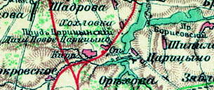 Tsaritsyno station on the map, Moscow, Russia